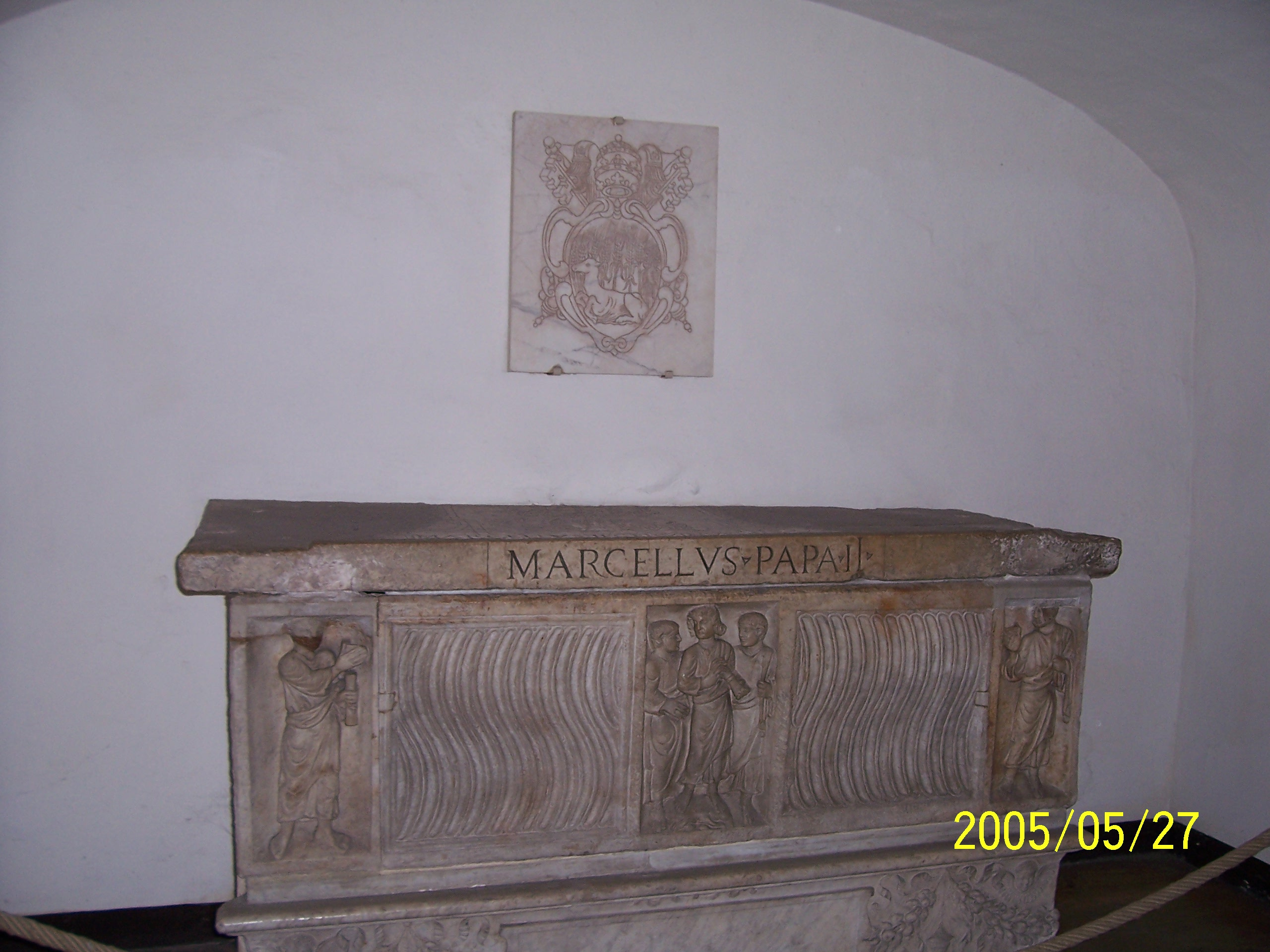 I took the photograph while in Rome in May 2005.